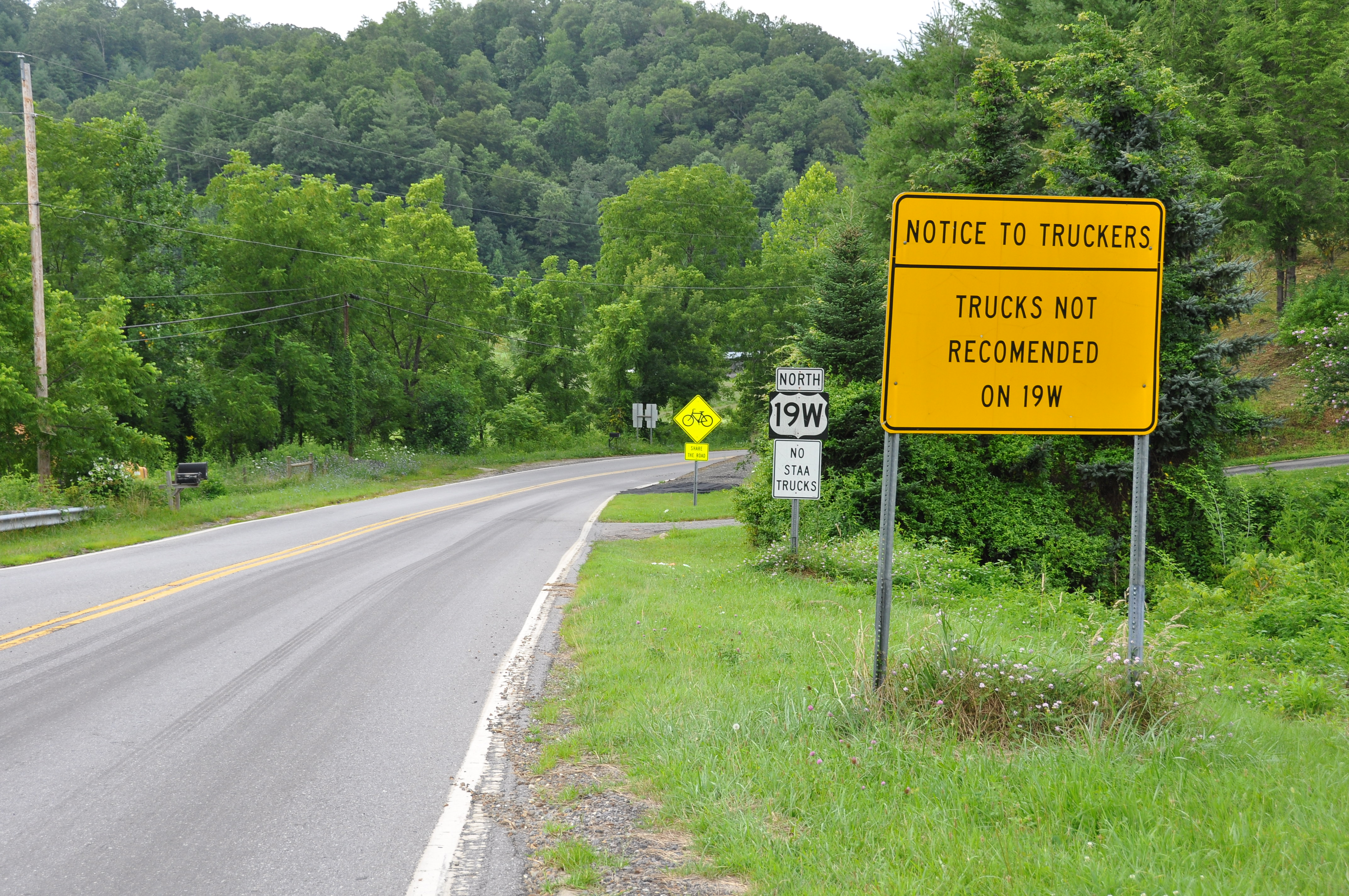 This is the start of U.S. Route 19W in North Carolina, at Cane River. The big yellow sign is to warn truckers not to use the route, however the word "recommended" is misspelled.